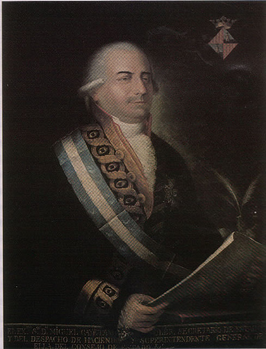 SWpanish Politician Cayetano Soler